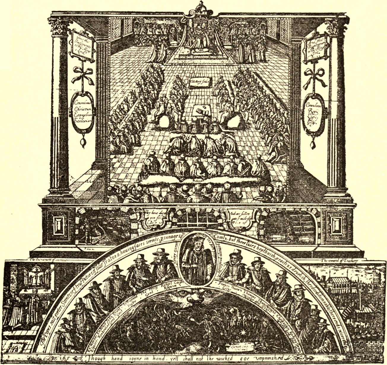 A print of the Gunpowder Plot found in the book "What was the Gunpowder Plot?" by John Gerard.